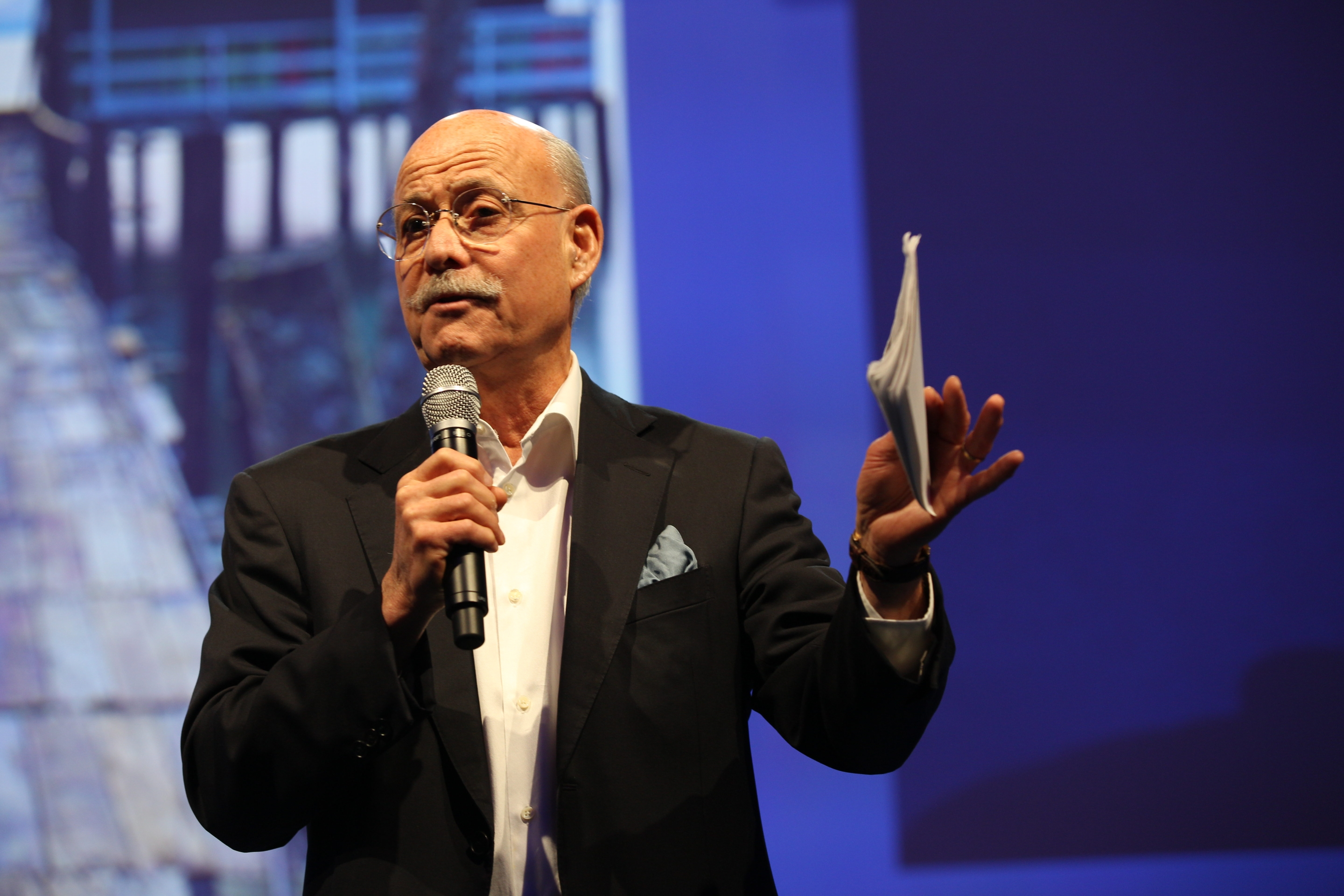 WTTC Global Summit 2016 World Travel & Tourism Council Flickr images